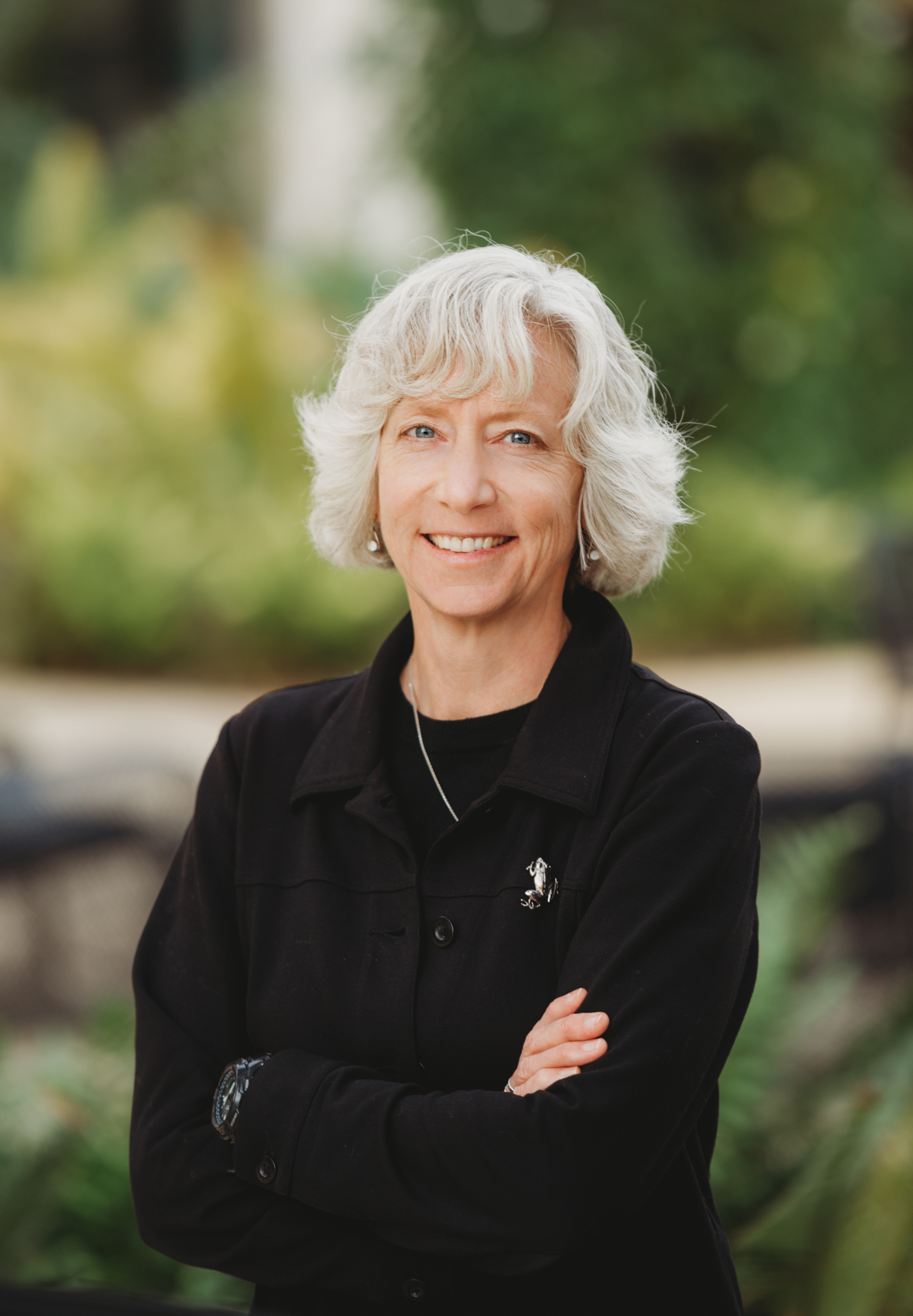 Gretchen Daily, outside her Natural Capital Project offices at Stanford University